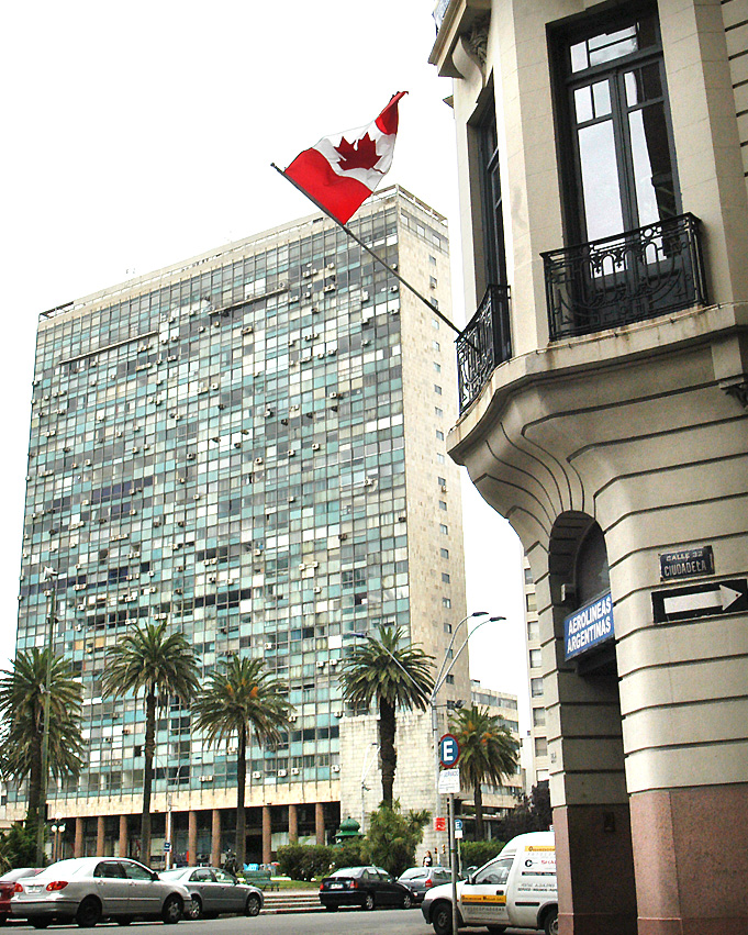 The Canadian Embassy in front of Montevideo's Plaza Independencia, Uruguay.